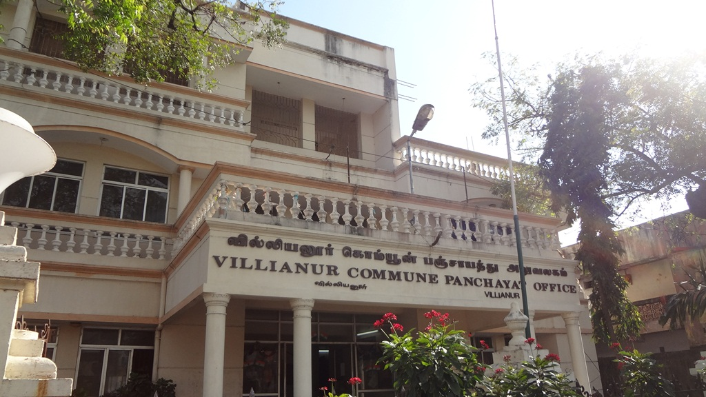 Villianur Commune Office - Long View